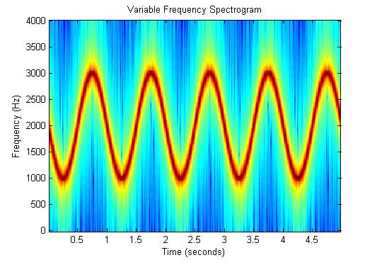 A variable frequency (FM) plot vs. time. Carrier frequency = 2000 Hz. Variable frequency = 1000 Hz cos[2*pi*2000*t+cos(2*pi*1000*t)] Created using MATLAB